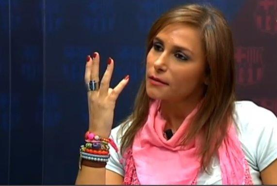 TV Journalist